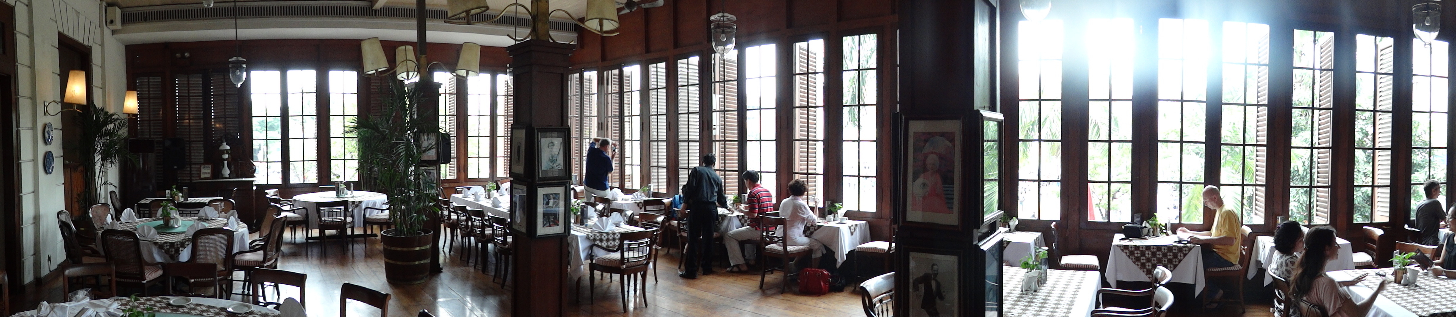 Panorama of Interior of Cafe Batavia - 1805 Construction - Jakarta - Indonesia